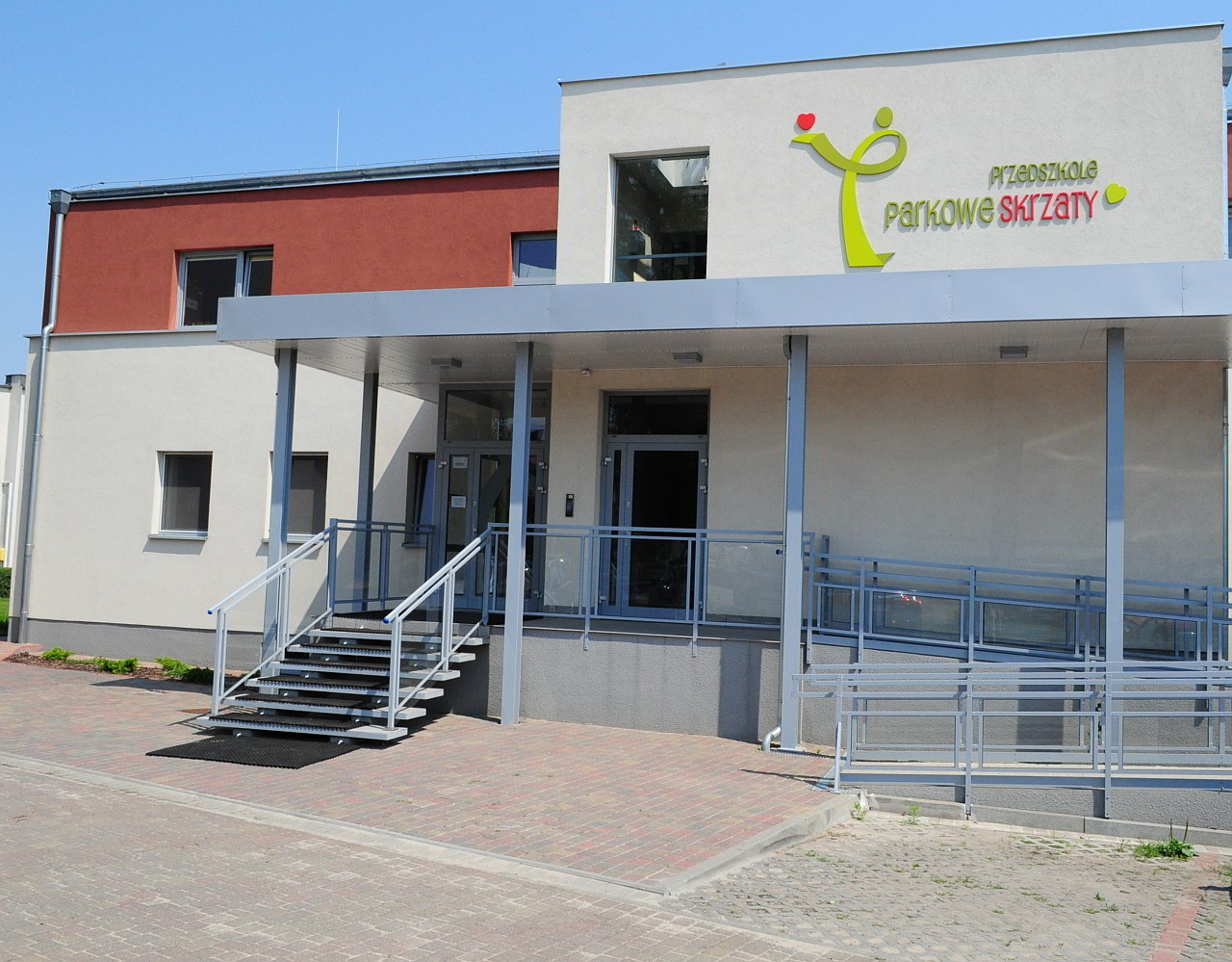 Kindergarten at Poznan Science and Technology Park (PPNT)